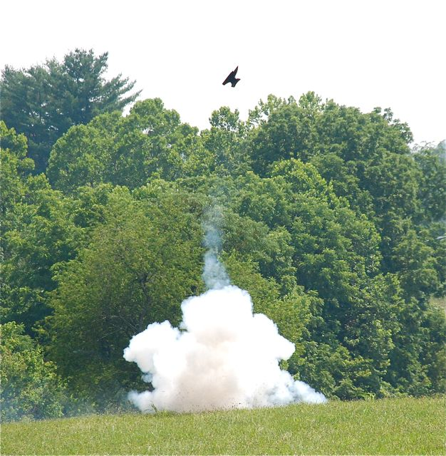 First anvil into space. That's one small blast for anvil, one giant leap for blacksmiths.